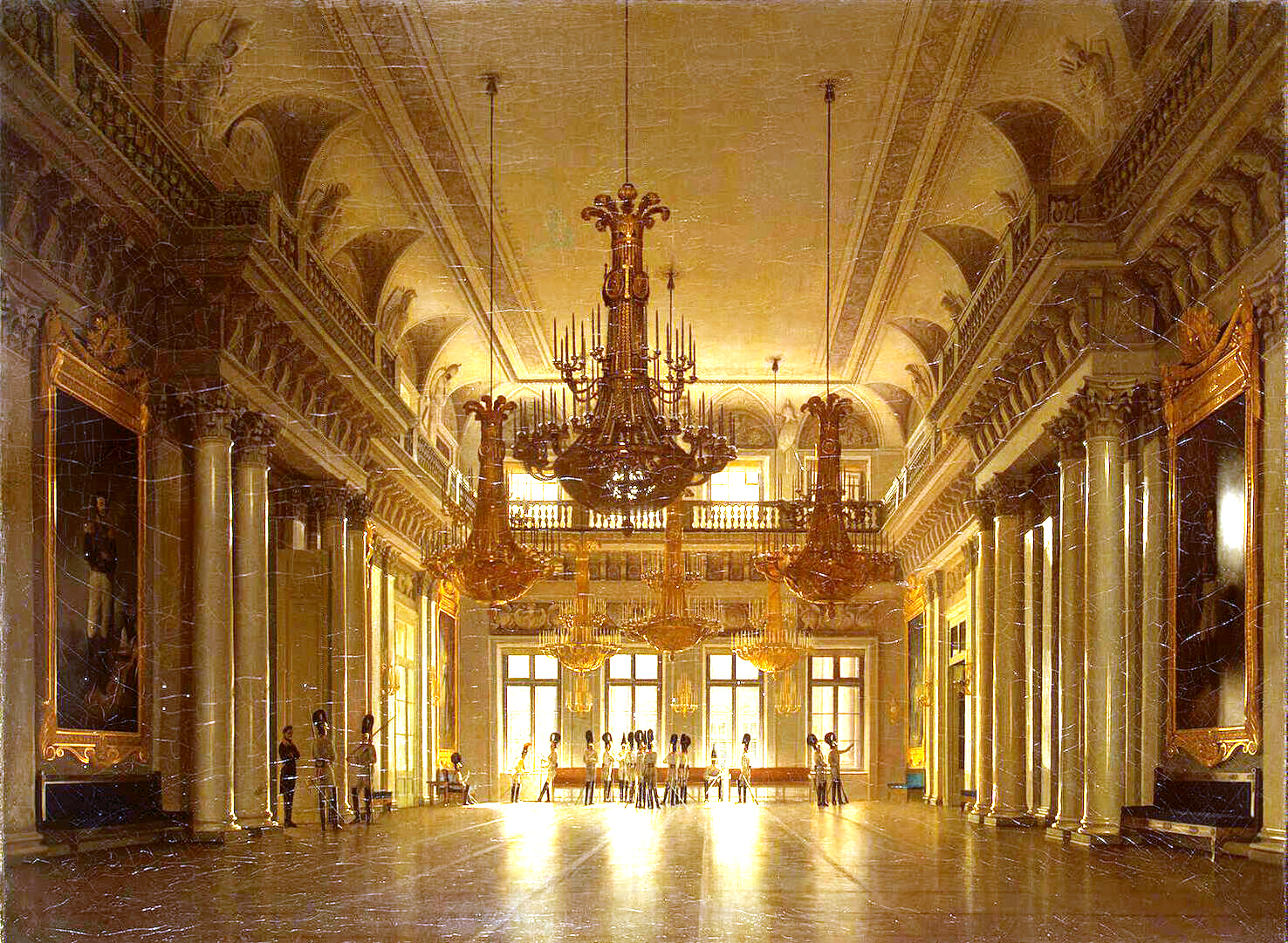 Interiors of the Winter Palace. The Fieldmarshals' Hall. Oil on canvas, 81x109 cm. State Hermitage Museum.